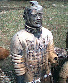 A TERRACOTTA SOLDIER Caltrop 20:14, 1 July 2006 (UTC)